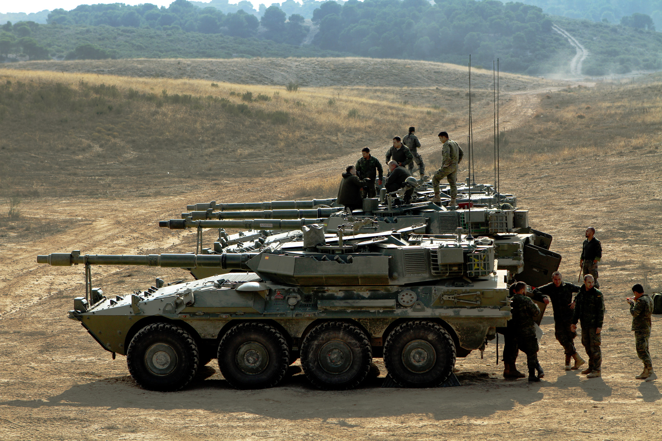 Trident Juncture 2015 - Trident Juncture 2015 - A squadron of Spanish B1 Centauros from the Spanish 7th Reconnissance Cavalry Group of the VII Light Infantry Brigade "Galicia". The crews are preparing their vehicles for deployment. NATO photo by Henk van der Velde